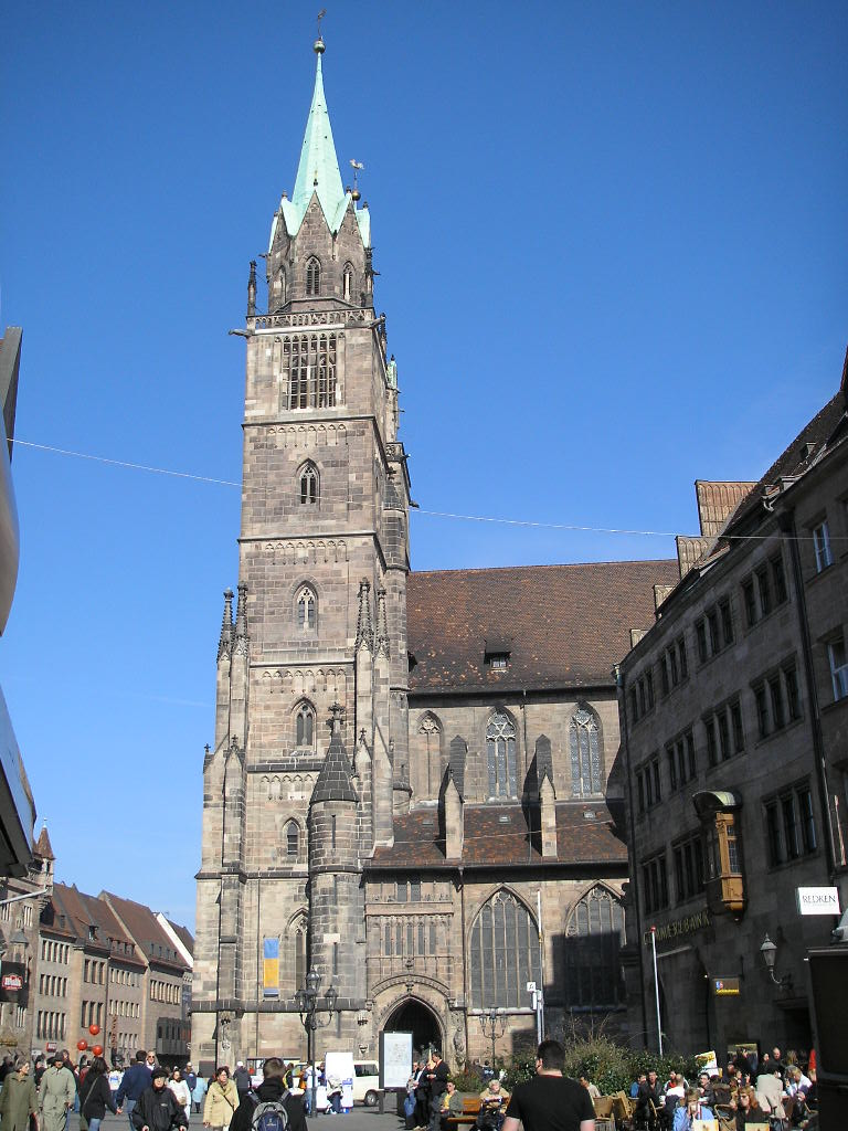 Image of the St. Lorenz church in Nuremberg, Bavaria.